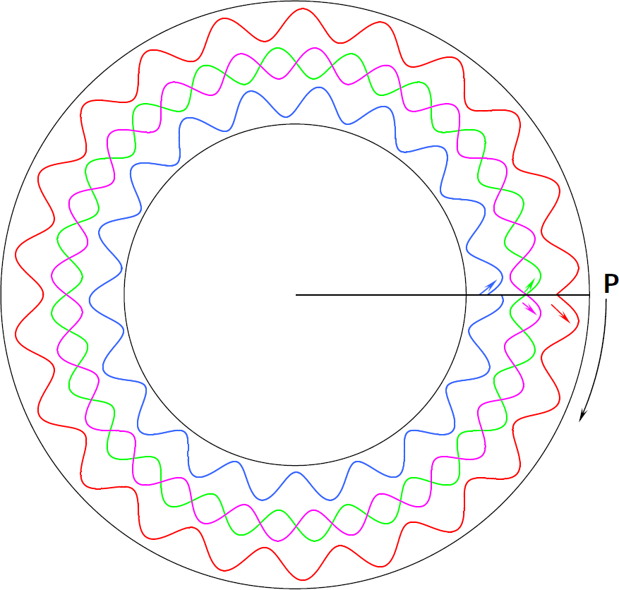 Sagnac Phaseshift